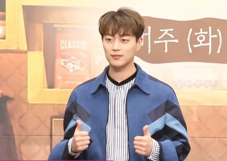 Yoon Doo-joon at the press conference of tvN cooking show 집밥 백선생3 (Mr. Baek The Homemade Food Master)